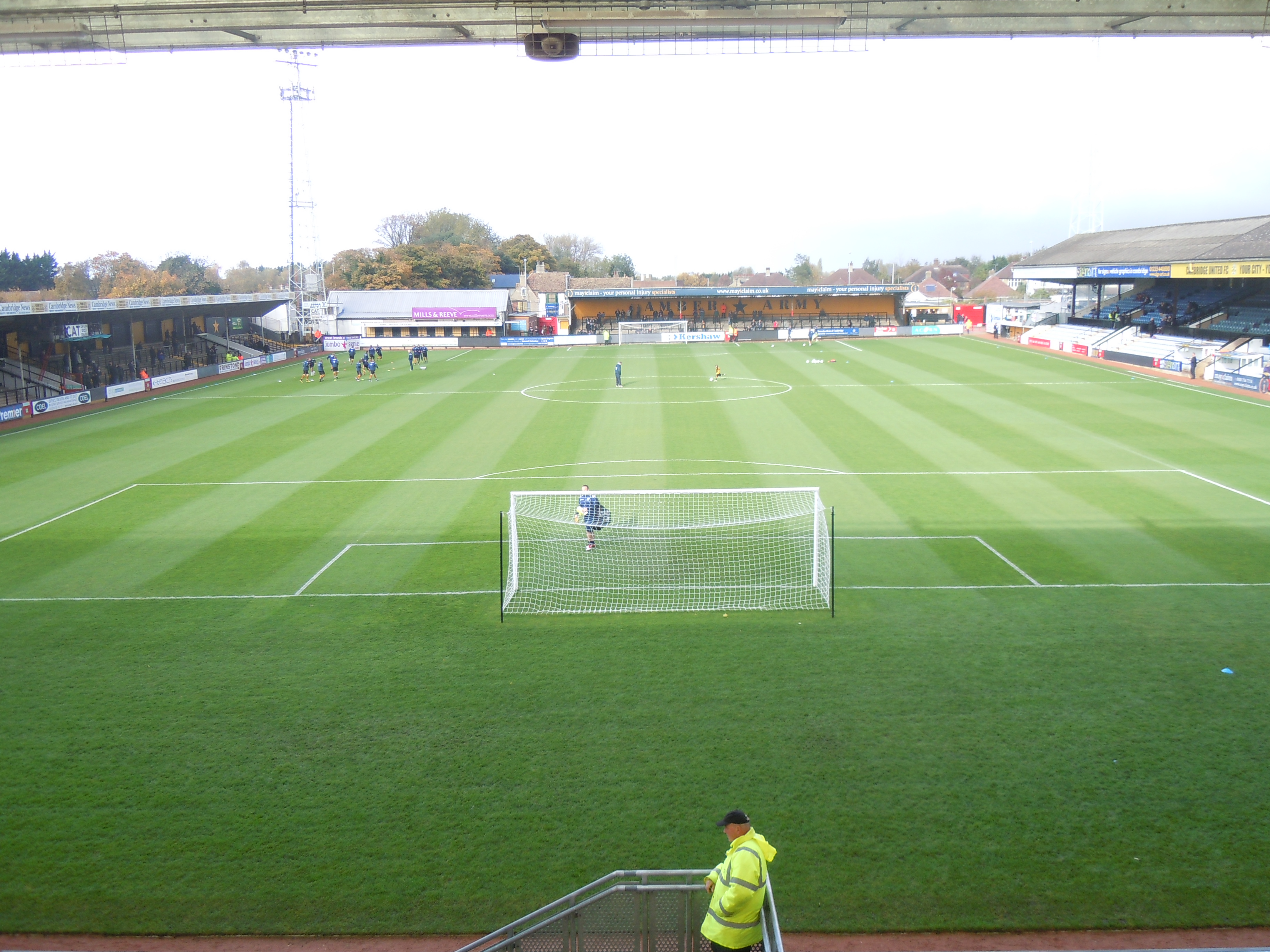 Cambridge United's Abbey Stadium, viewed from the South Stand